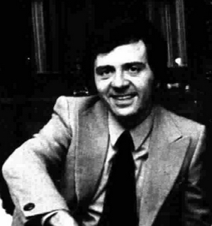 Italian director Leandro Castellani